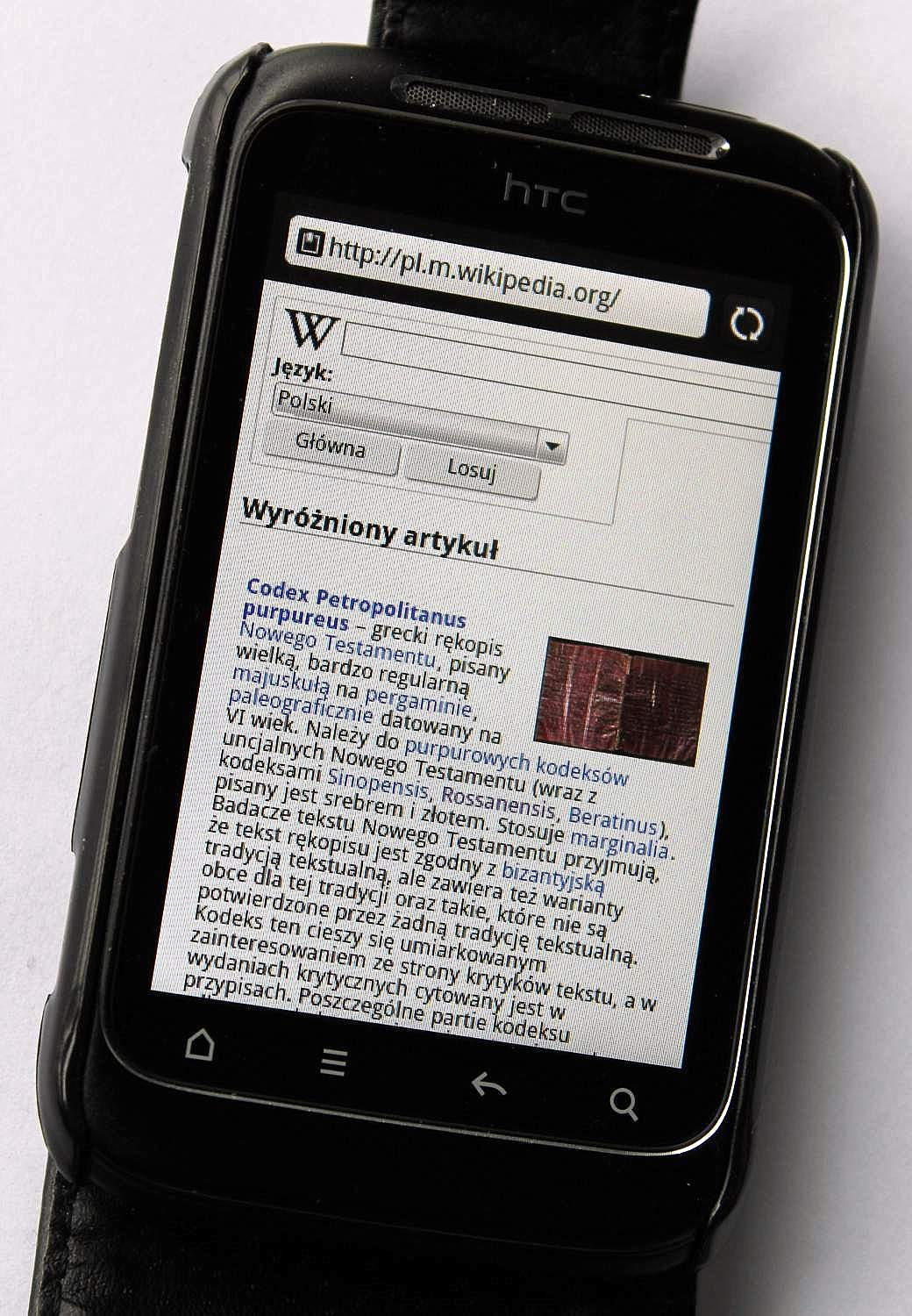 HTC Wildfire S Cell Phone displaying a Wikipedia page